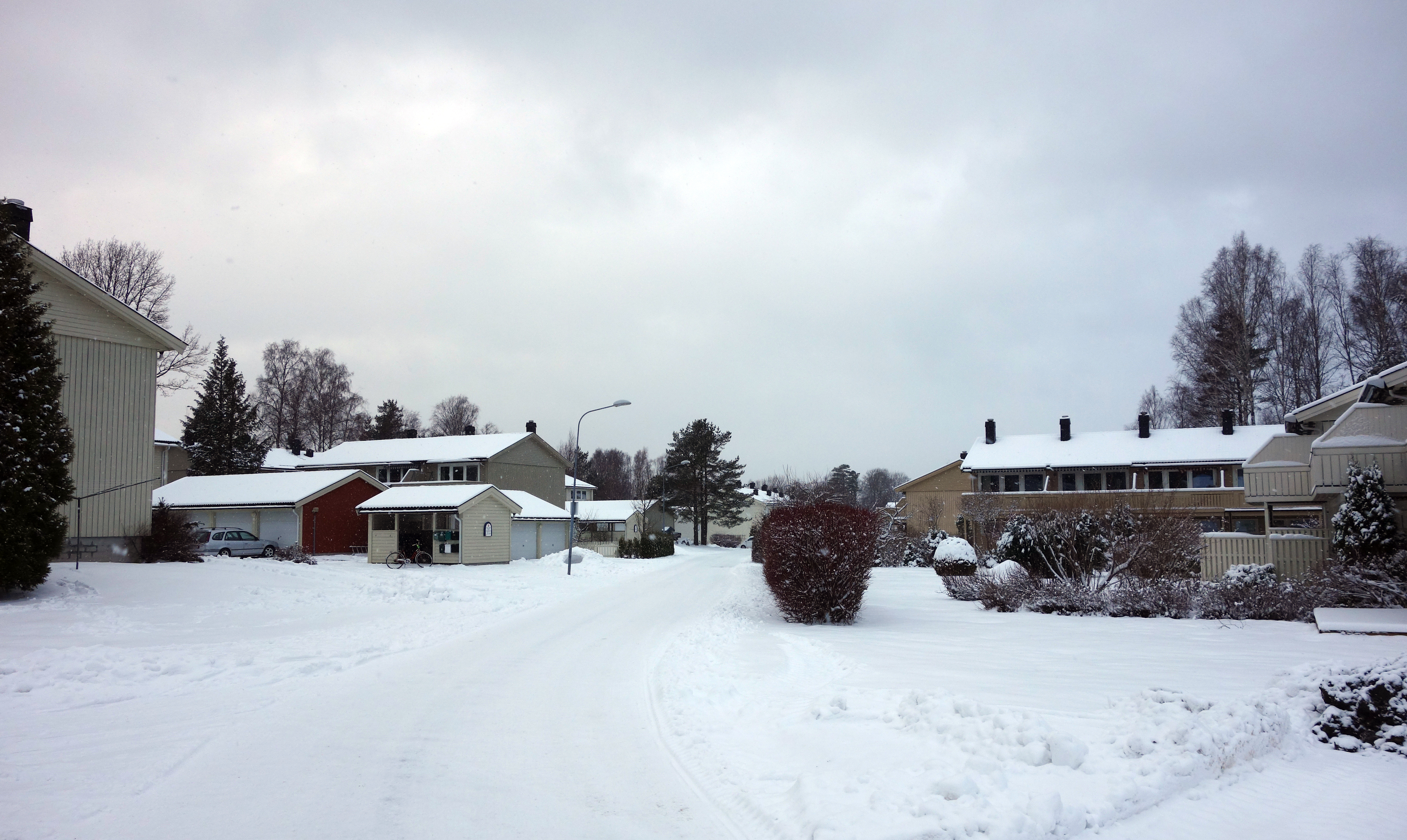 Furumoveien in Labakken, Nøtterøy, Vestfold, Norway